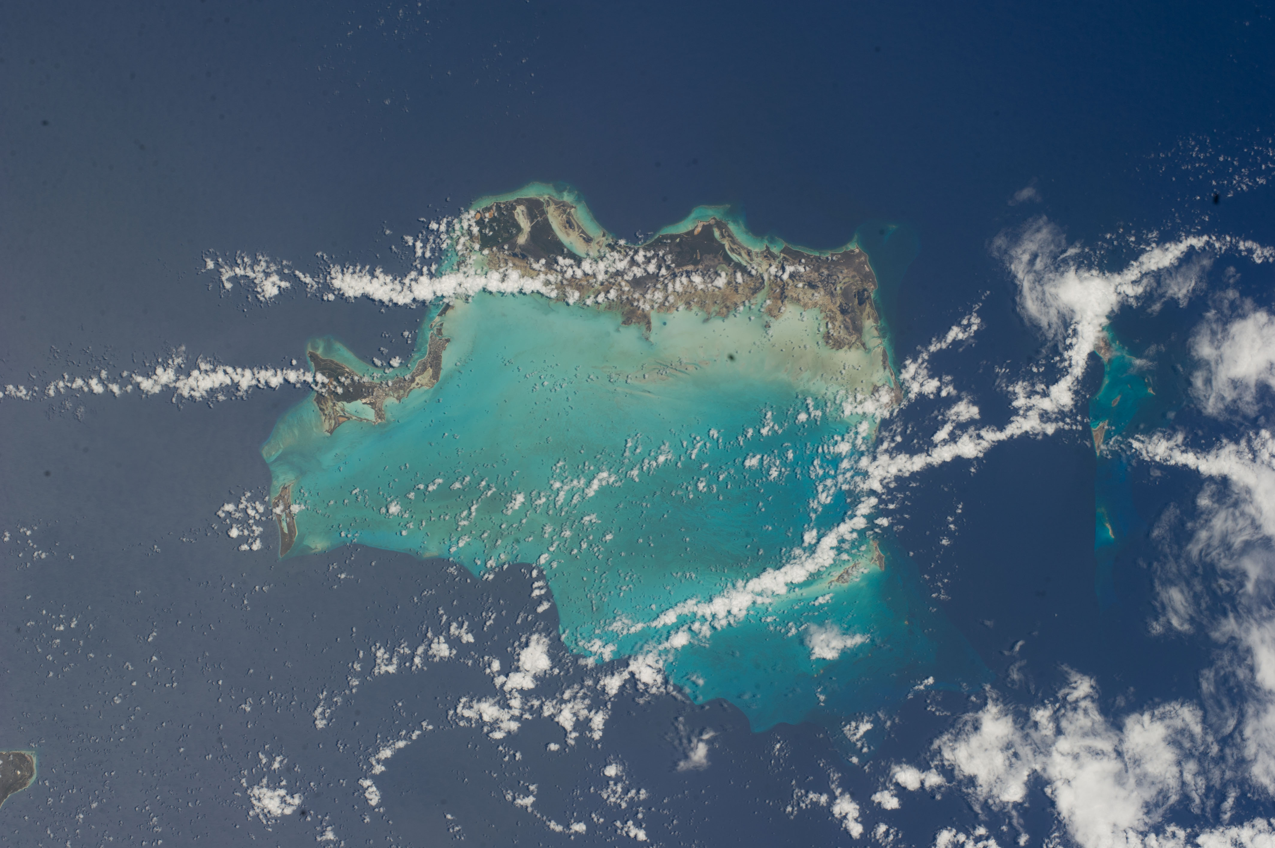 NASA Earth Observation (ISS040-E-000478) --- One of the Expedition 40 crew members aboard the International Space Station used an 80mm lens on a digital still camera to photograph this image of the Turks and Caicos Islands. Those pictured include components of the Caicos -- Providenciales, North Caicos, Grand Caicos and East Caicos. The Turks Islands, including Grand Turk (under clouds), are on the right.